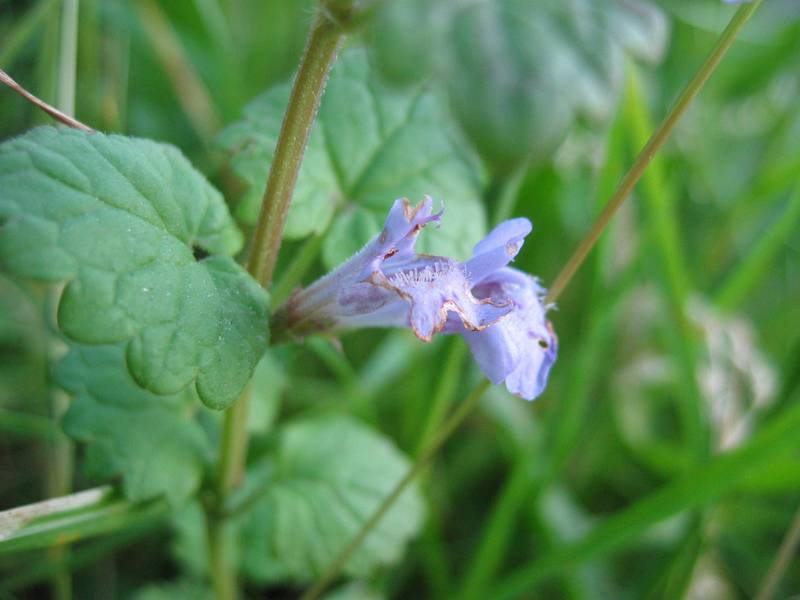 Gundermann Glechoma hederacea